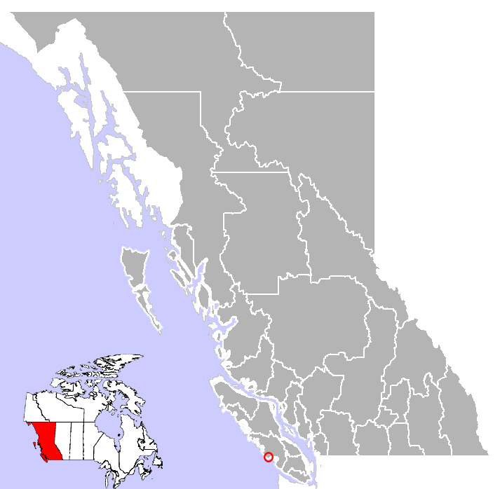 Ucluelet, British Columbia location.